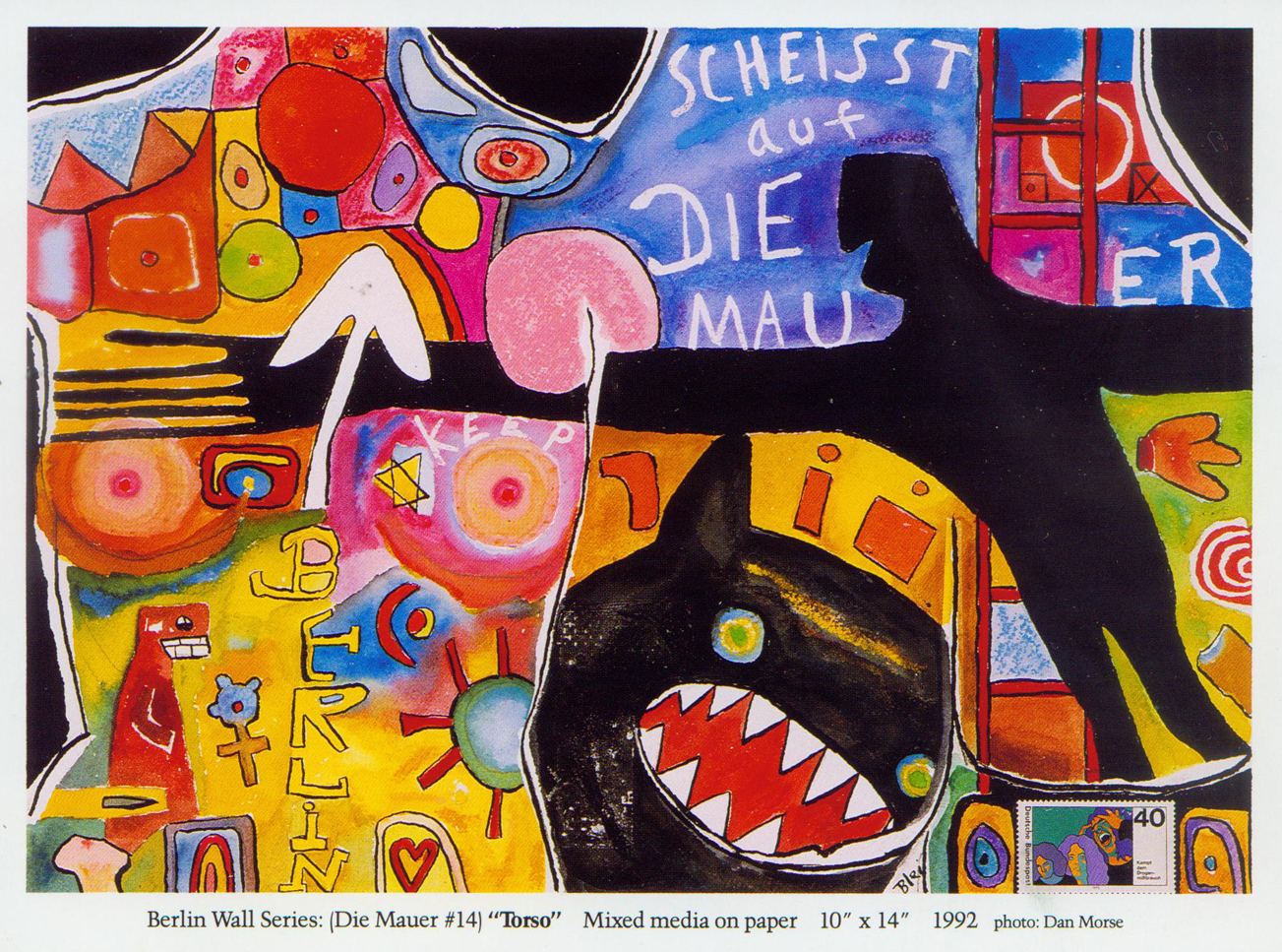 Berlin Wall Series: (Die Mauer #14): "Torso". Mixed media on paper. 10"×14", 1992, by Norbert Blei